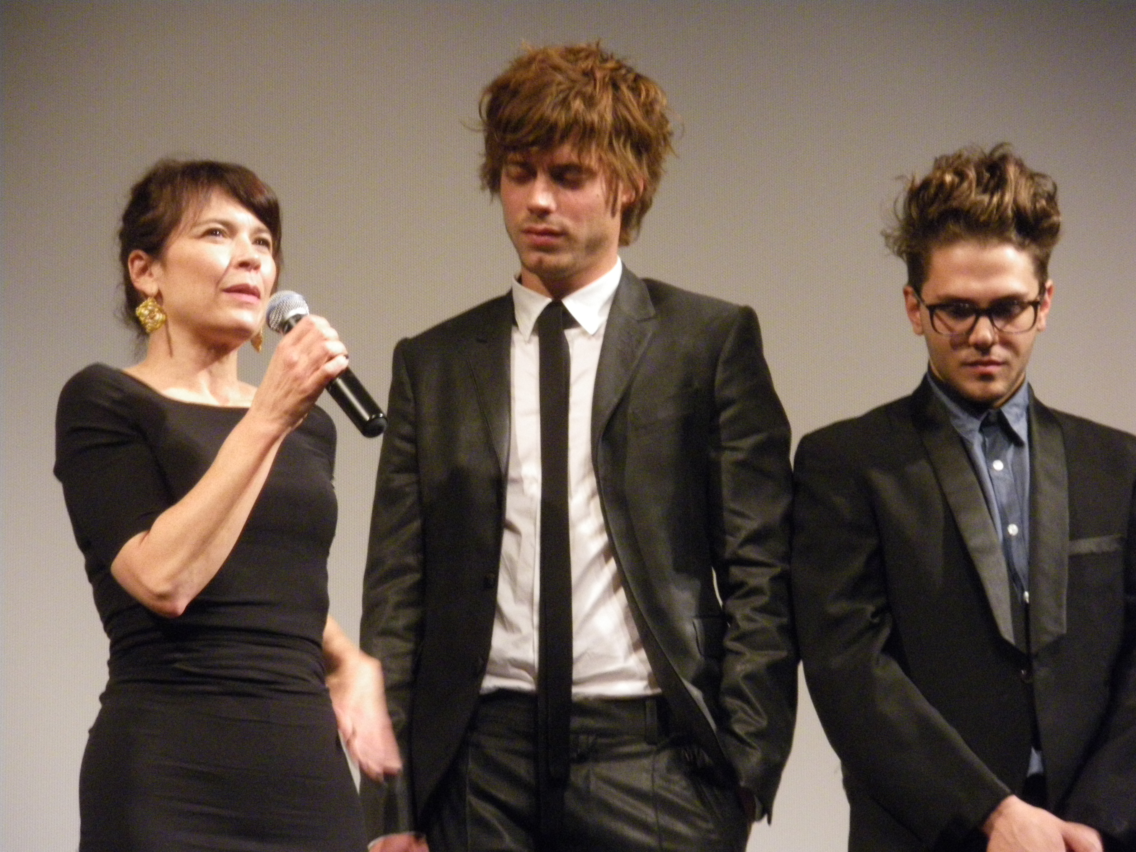 From left to right, Anne Dorval, François Arnaud (actor), and Xavier Dolan. At the Isabel Bader Theatre during the 2009 Toronto International Film Festival for screening of J'ai tué ma mère.